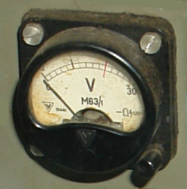 Type M63 panel voltmeter. Manufacturer: 'Vibrator' plant, Leningrad, USSR. Installed in the A-7-B transceiver.